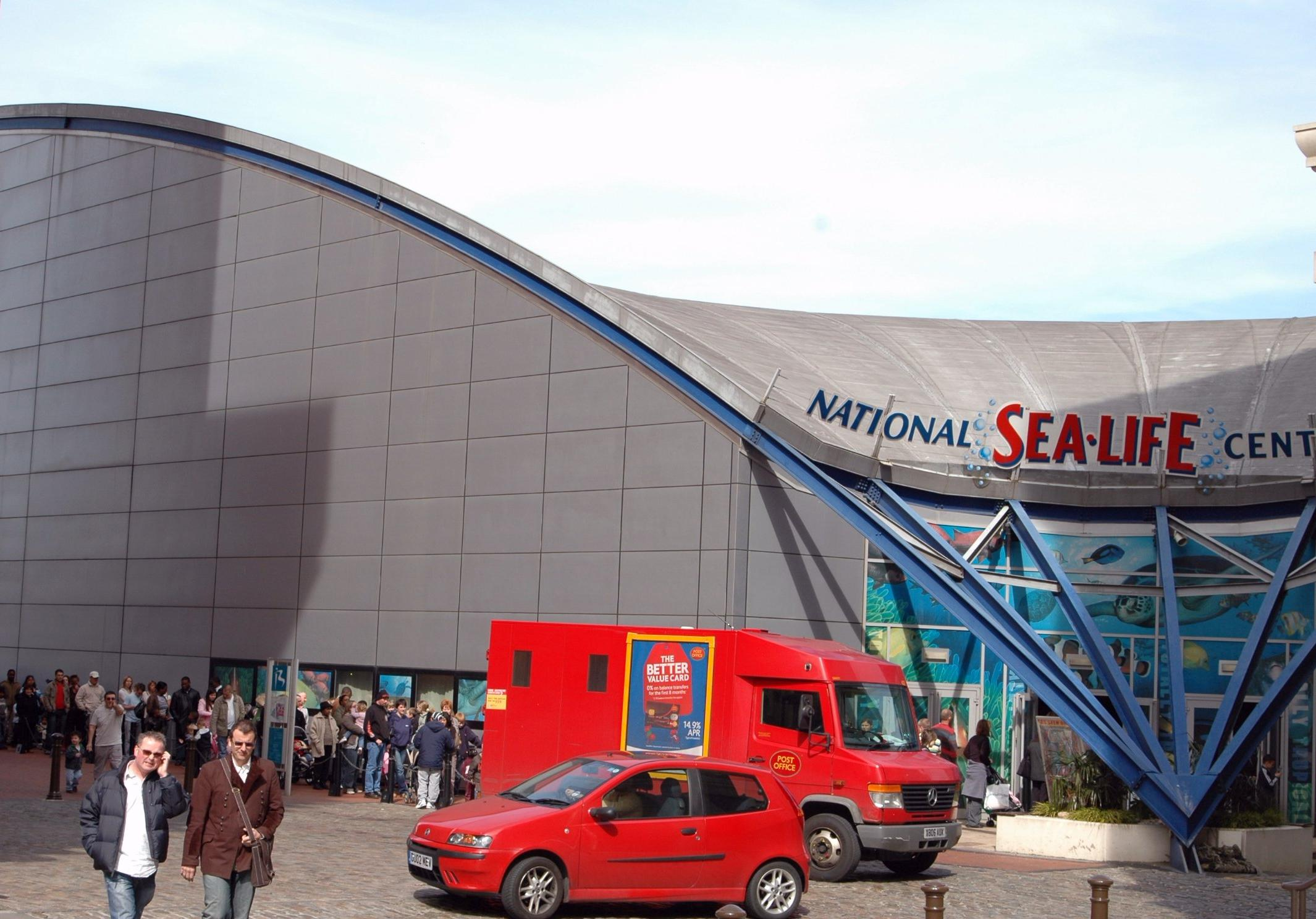 This is the National Sea Life Centre in Brindleyplace, Birmingham, England.